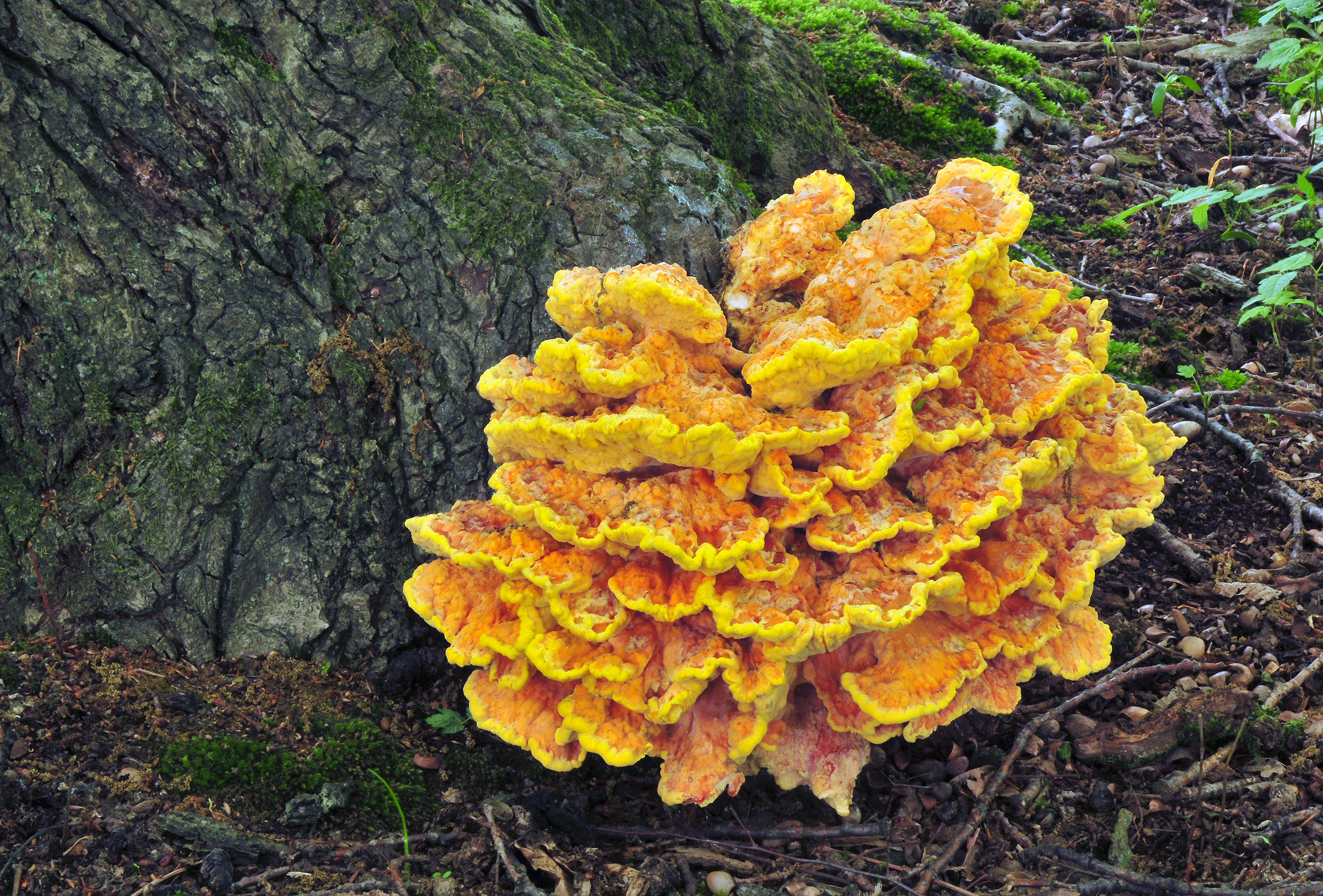 Laetiporus sulphureus.